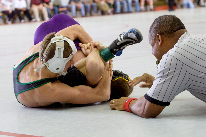 Two college students wrestling (collegiate, scholastic, or folkstyle) in the United States.